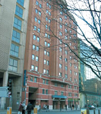 High Holborn Residence